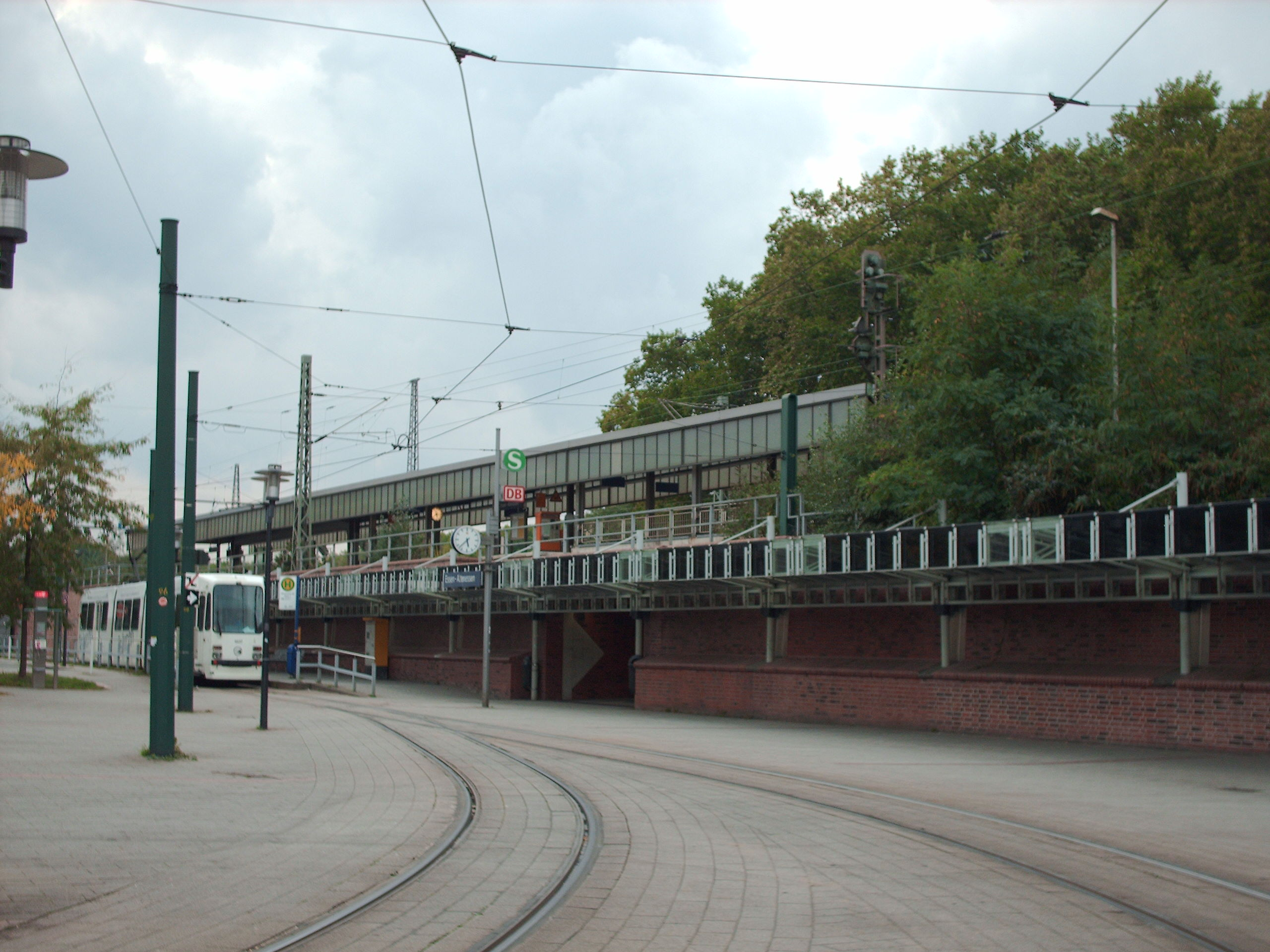 Essen-Altenessen Station, Essen, Germany check usage